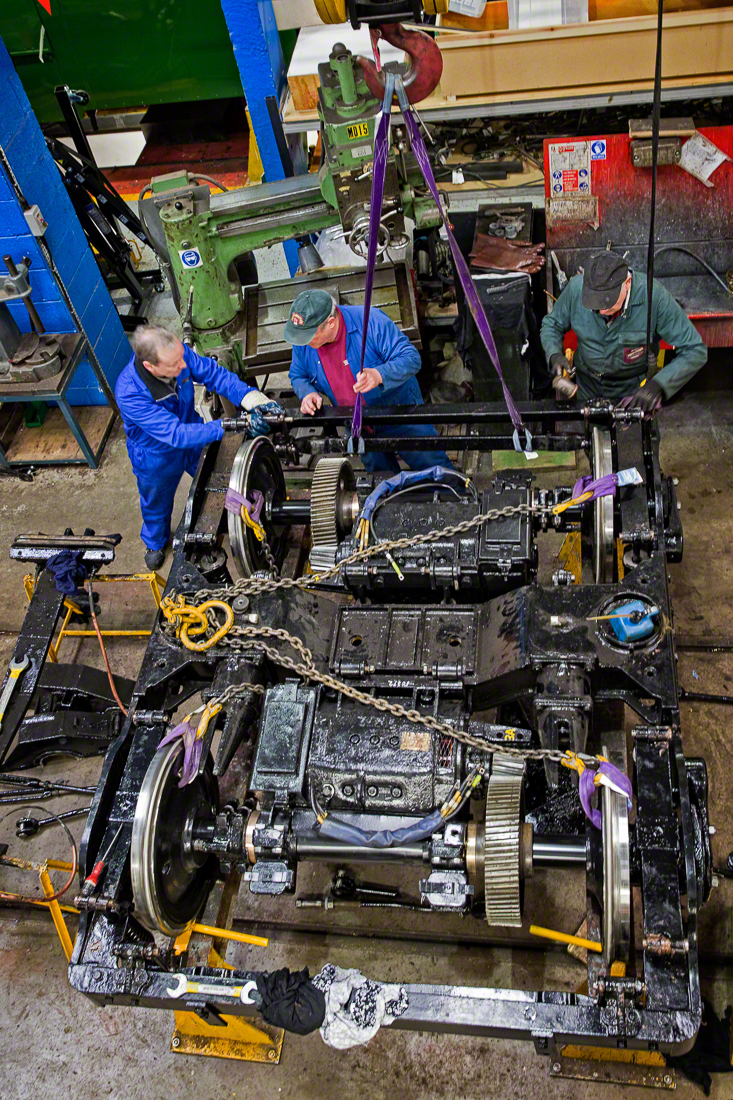 Engineers working on an electro-mechanical bogie from a tram at Crich Tramway Village